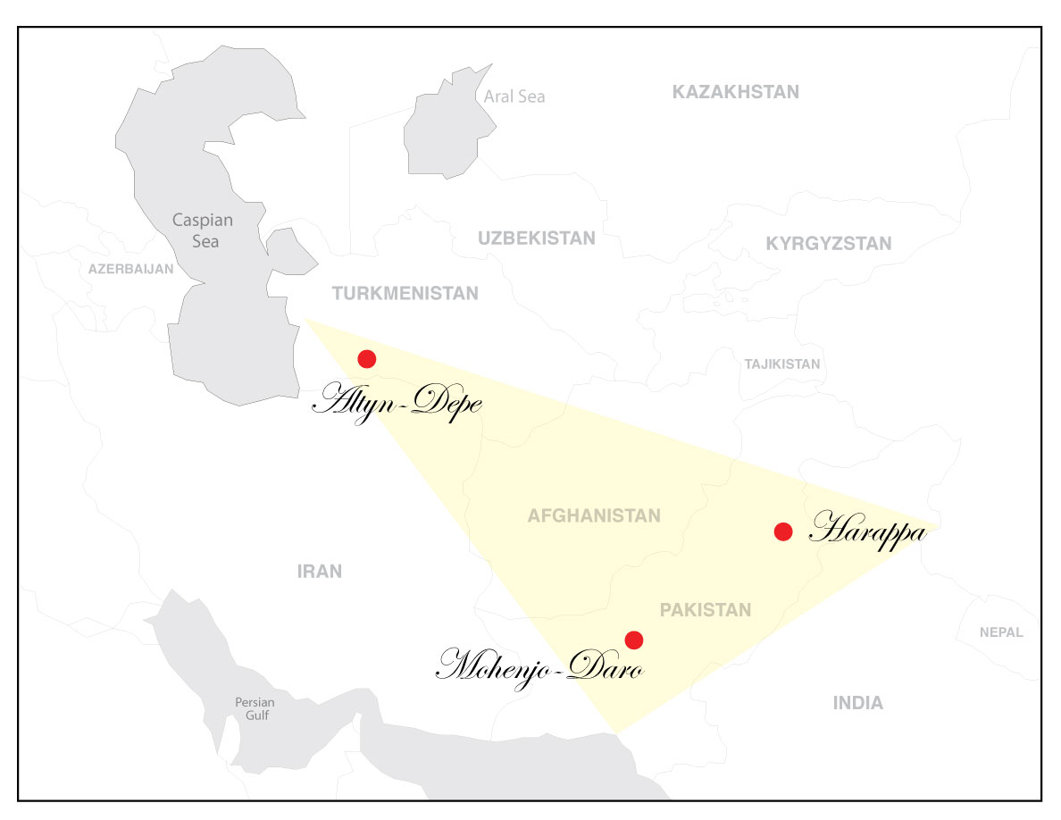 Map of the cultural zones in the Middle East during Eneolithic.